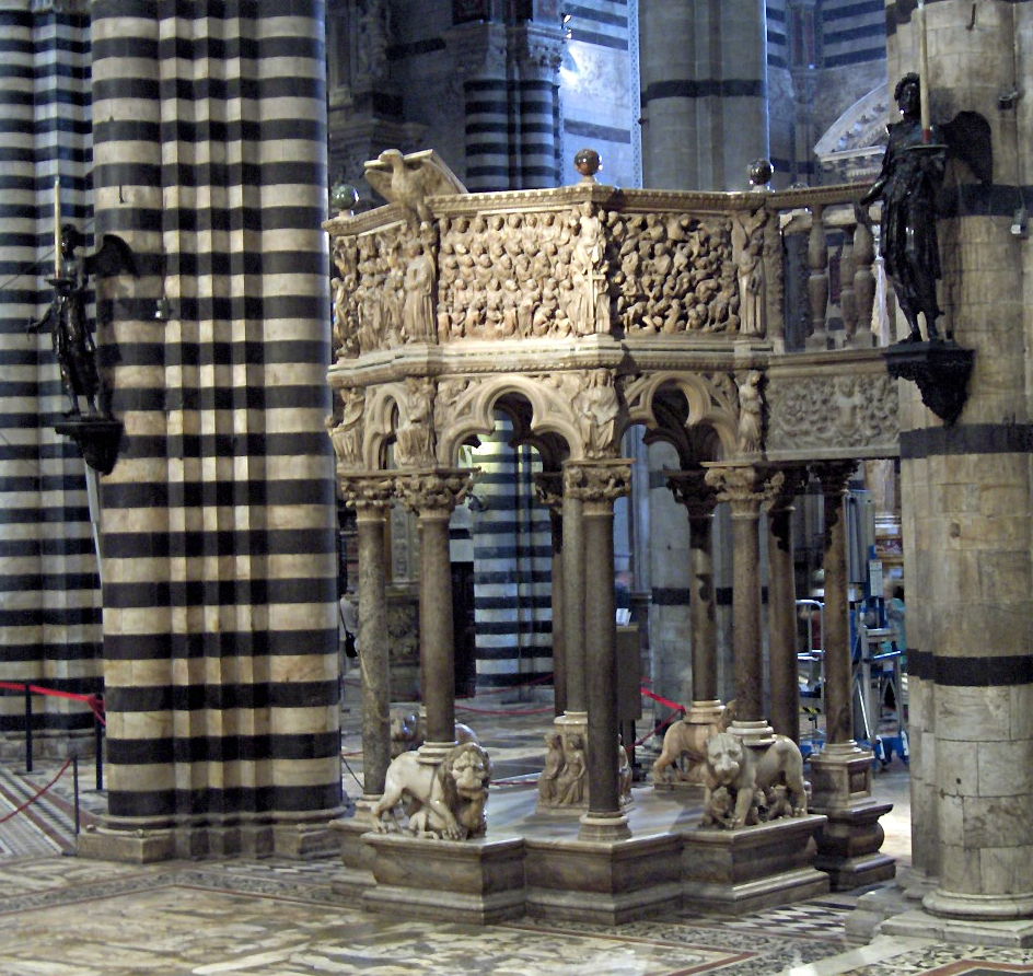 Nicola Pisano, Pulpit in the Duomo of Siena